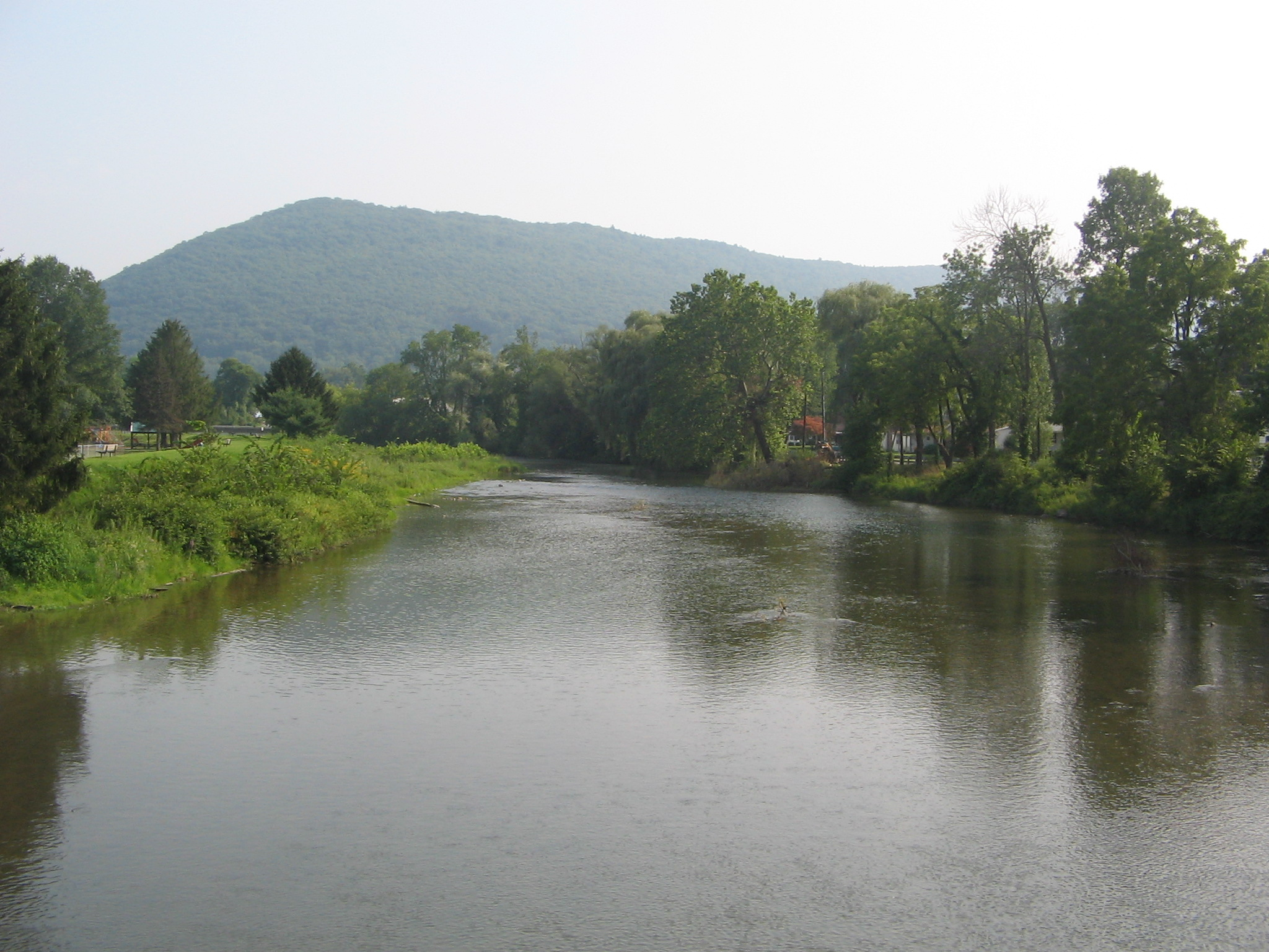 Fishing Creek (tributary of Bald Eagle Creek, itslef a West Branch Susquehanna River tributary) from PA Route 150, Clinton County, Pennsylvania, USA